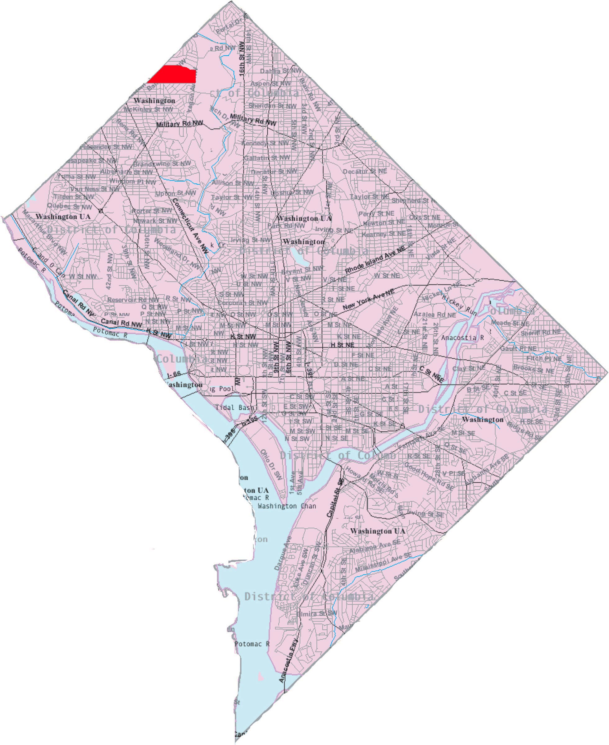 This image is a modified version of a self-generated reference map from the U.S. Census Bureau's American Factfinder at by Wikipedia user Msclguru.